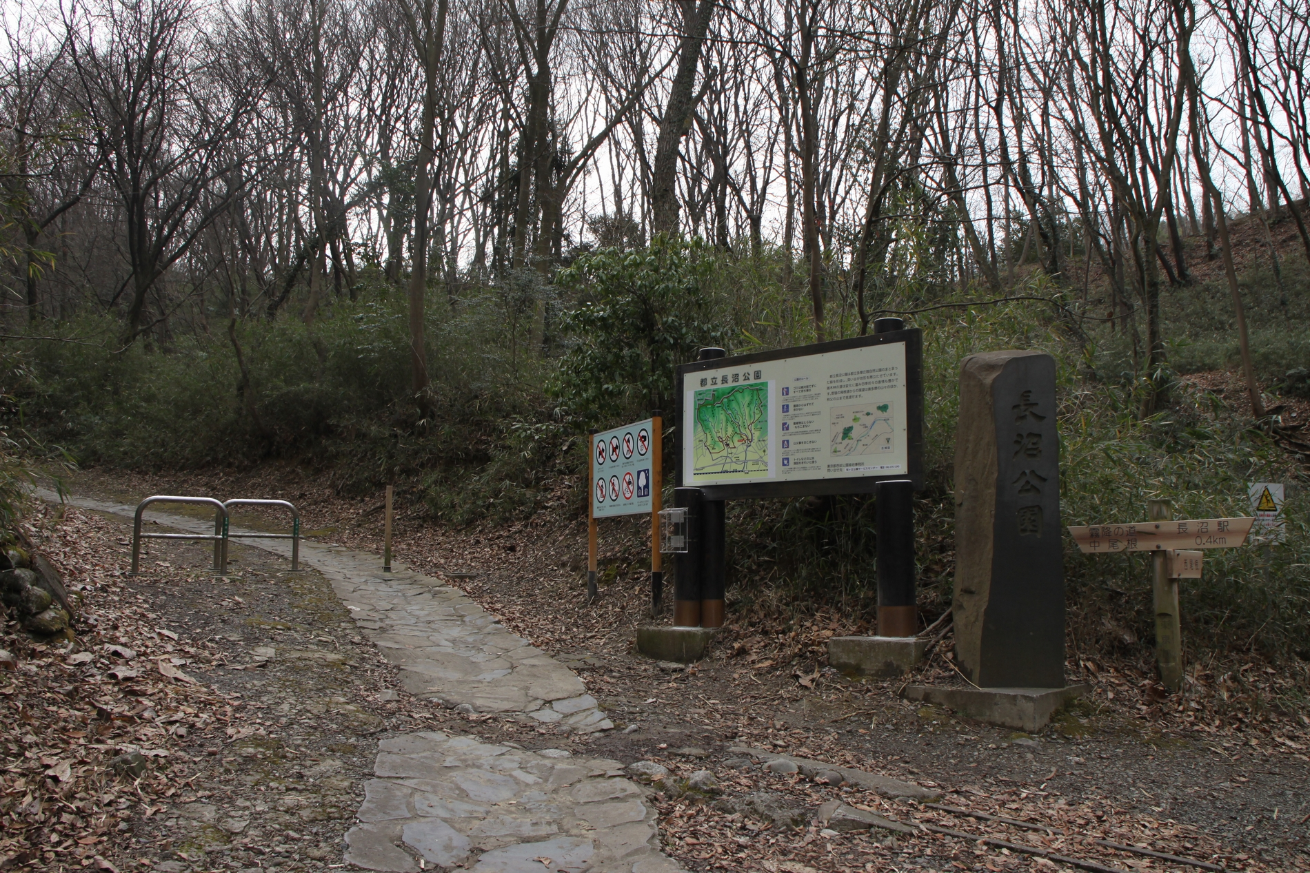 Metropolitan park (Naganuma Station side) in Naganuma-cho, Hachioji-shi, Tokyo.